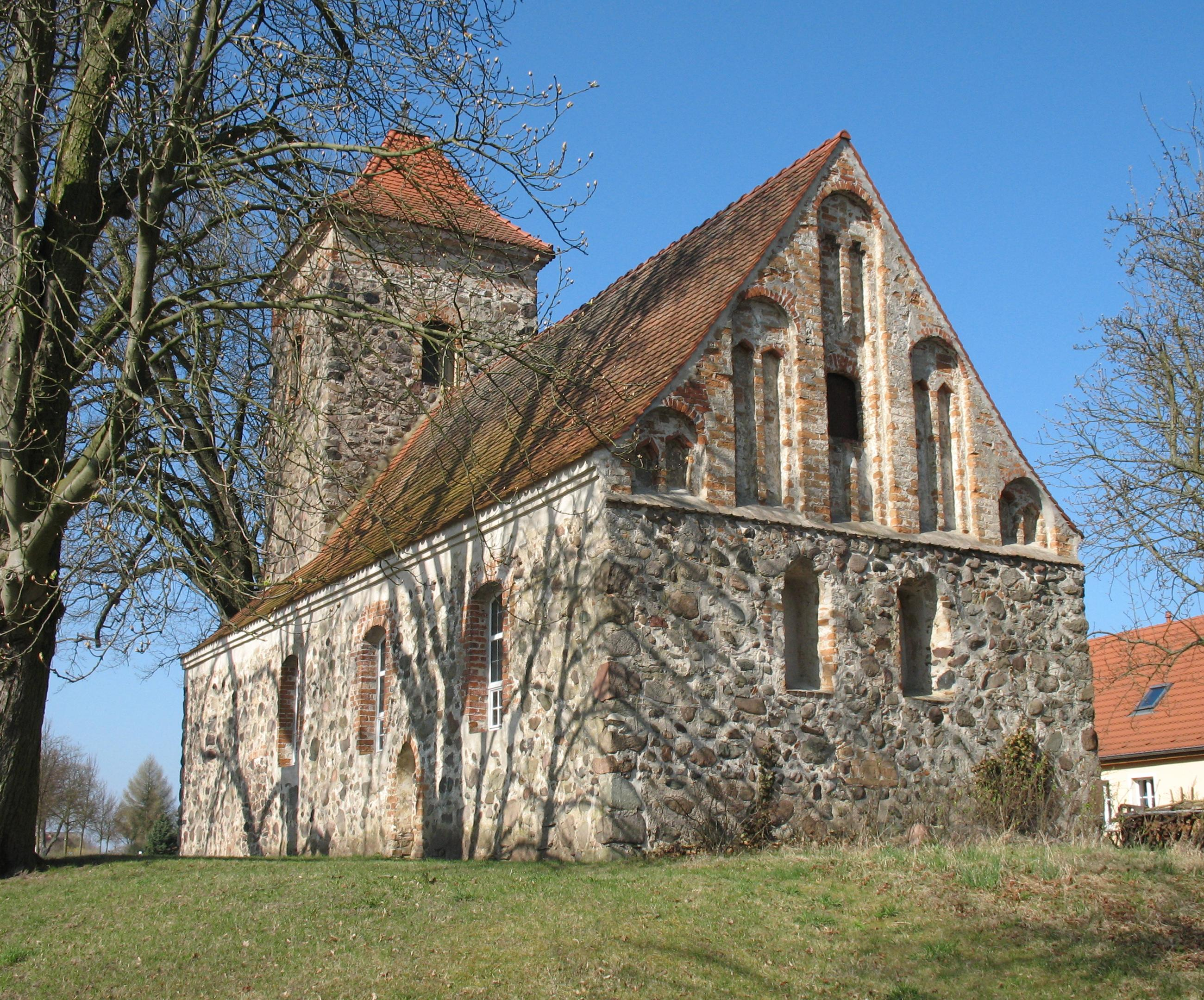 Church in Vielitzsee-Vielitz in Brandenburg, Germany